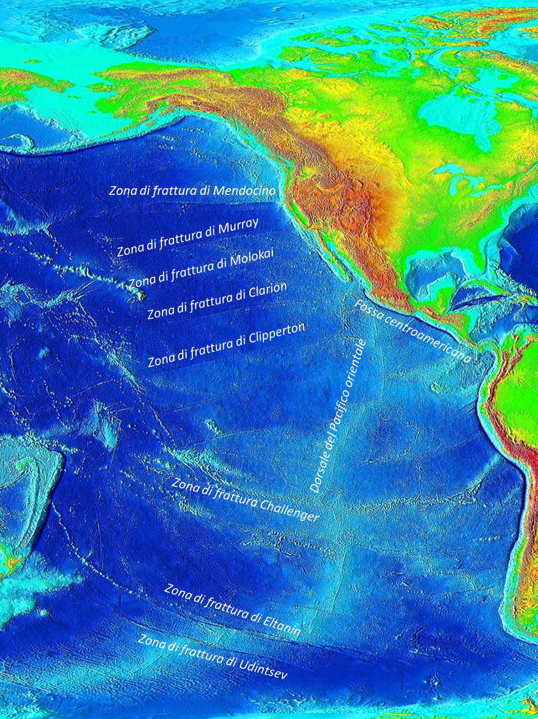 Main fracture zones in the Pacific ocean.